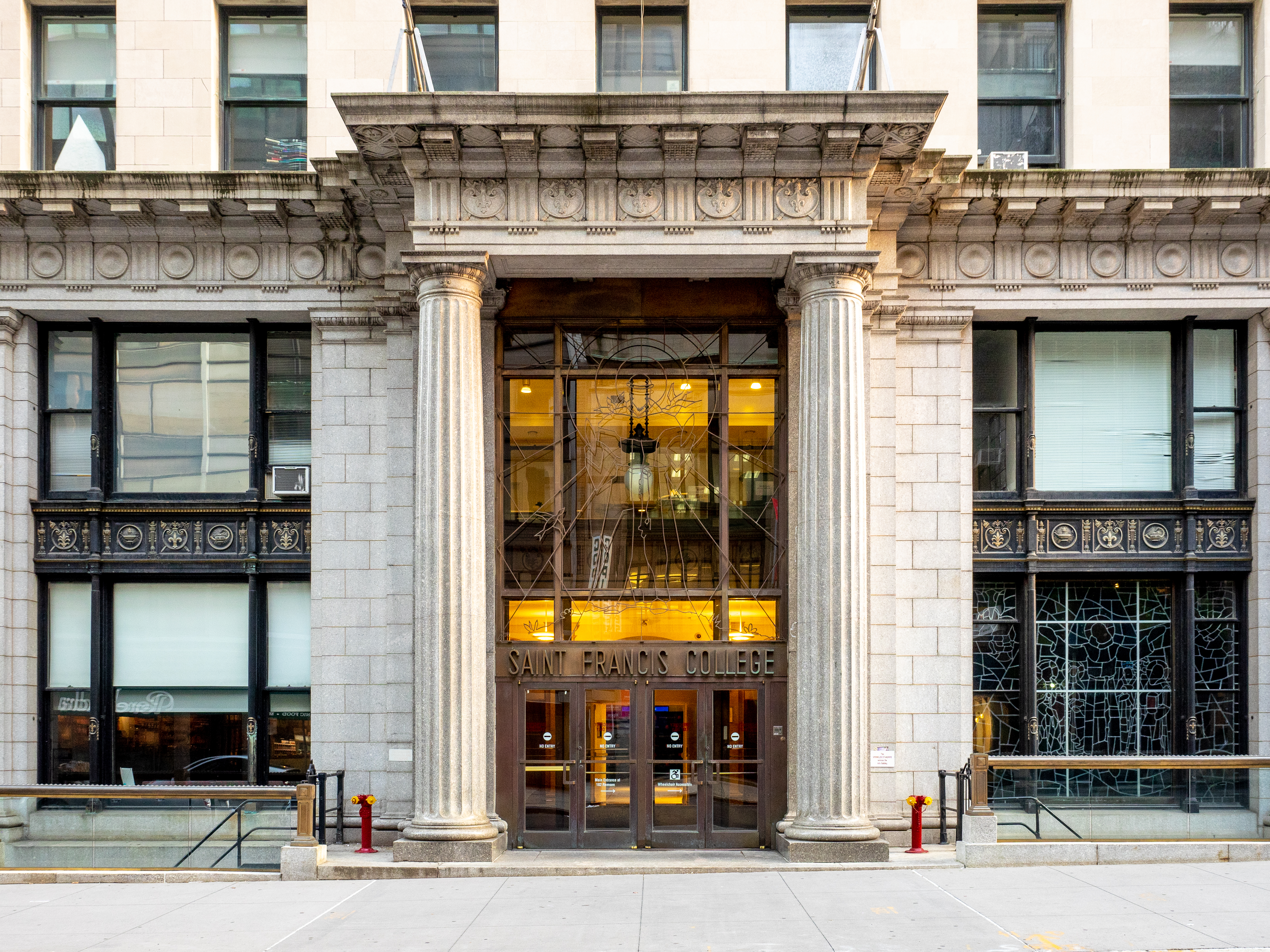 Downtown Brooklyn, Brooklyn, New York City